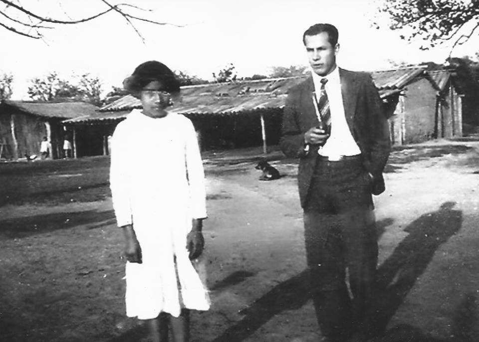 Del Cuaderno de Actuación Profesional del M.N.N. (Maestro Normal Nacional) Antenor Argentino Gauna. En 1937 es trasladado con el cargo de Director a la Escuela N° 125 de Cogoik, Departamento Patiño, Formosa. Resol. 4 de junio de 1937. Crea por resolución del Honorable Consejo la Escuela N° 125 de Cogoik el 10 de agosto de 1937. Propicia la formación de la Sociedad Cooperadora de la Escuela N° 125. Dirige los trabajos de construcción del local de la Escuela, realizado por los vecinos. Recibe en donación del vecindario e inaugura en nombre del Honorable Consejo el local de la Escuela 125 el día 20 de noviembre de 1937.